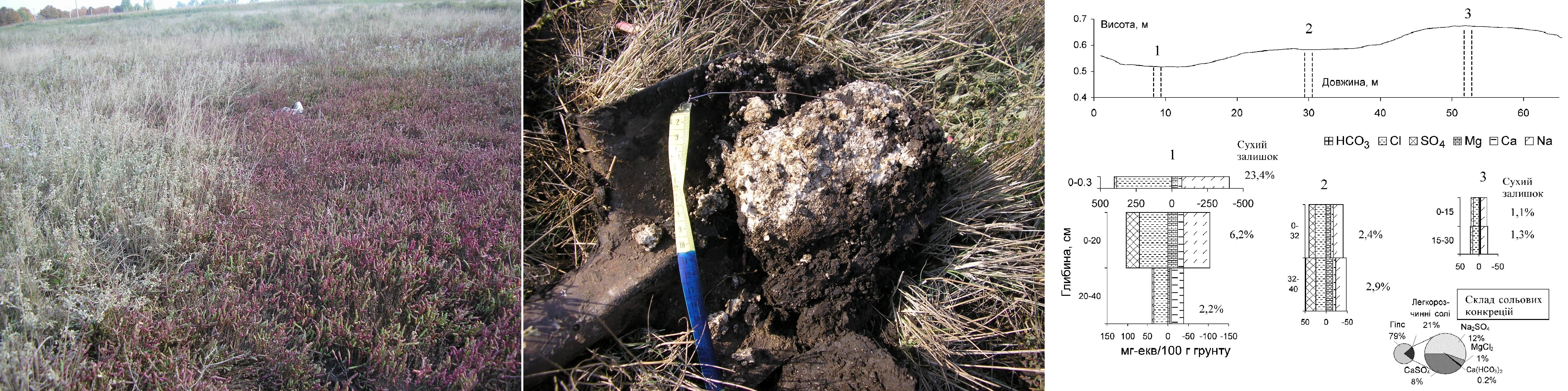 Solonchak; floodplain rivers in the steppe zone of Ukraine. 1. Salicоrnia europaеa; 2. Accumulation (neoplasms) salts; 3. Salt profiles.